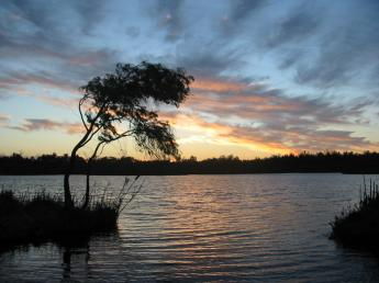 Sunset over Yanchep, Perth, Western Australia. Photo by: wing.